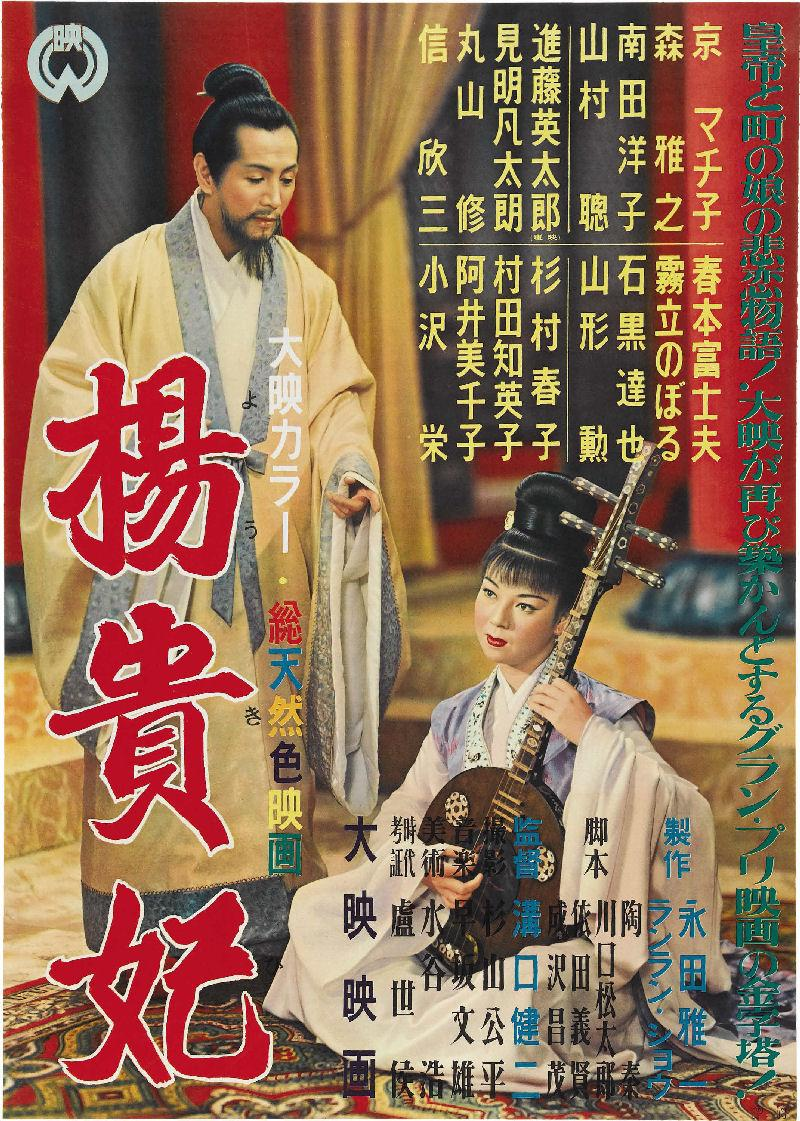 1955 movie poster for 1955 Japanese movie Princess Yang Kwei-Fei aka The Empress Yang Kuei-Fei (楊貴妃 Yōkihi).